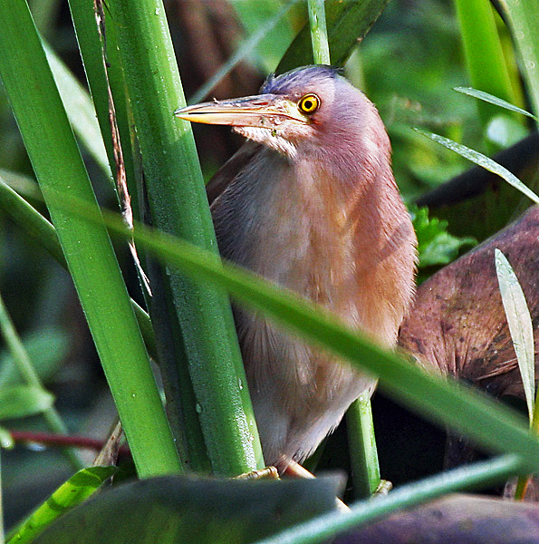 Yellow Bittern Ixobrychus sinensis in Kolkata, West Bengal, India.